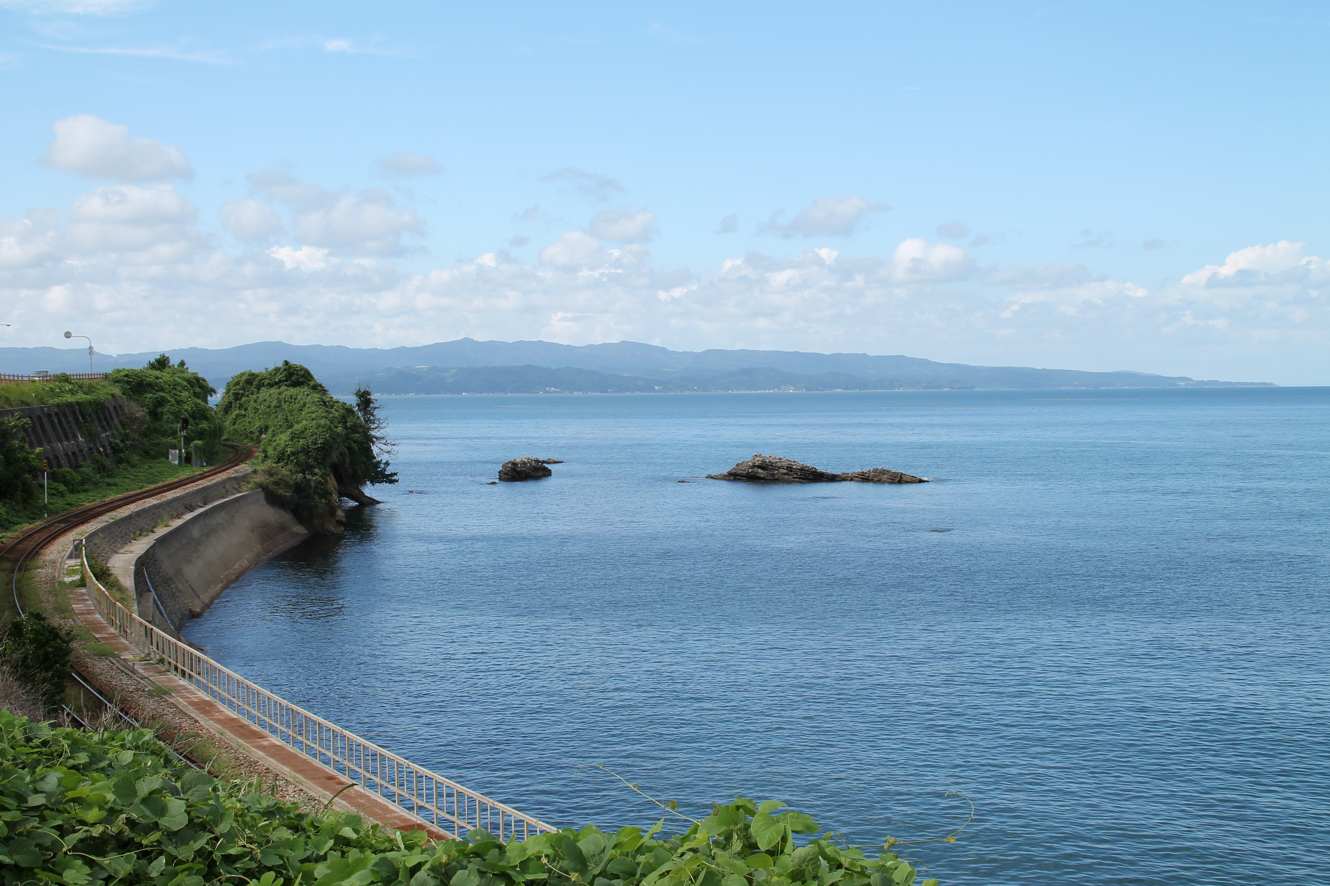 Himi Line and Noto Peninsula